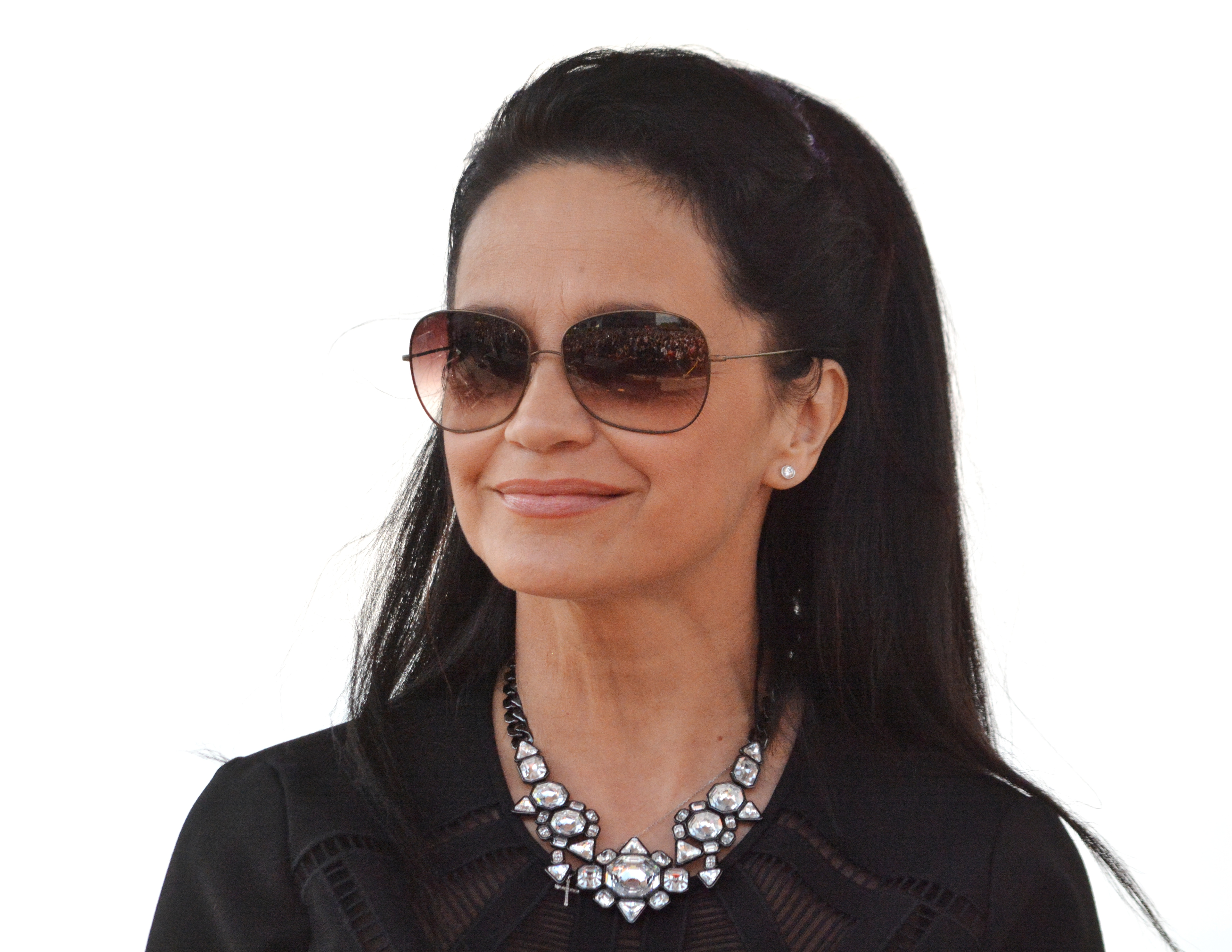 Lucie Bílá, Czech vocalist